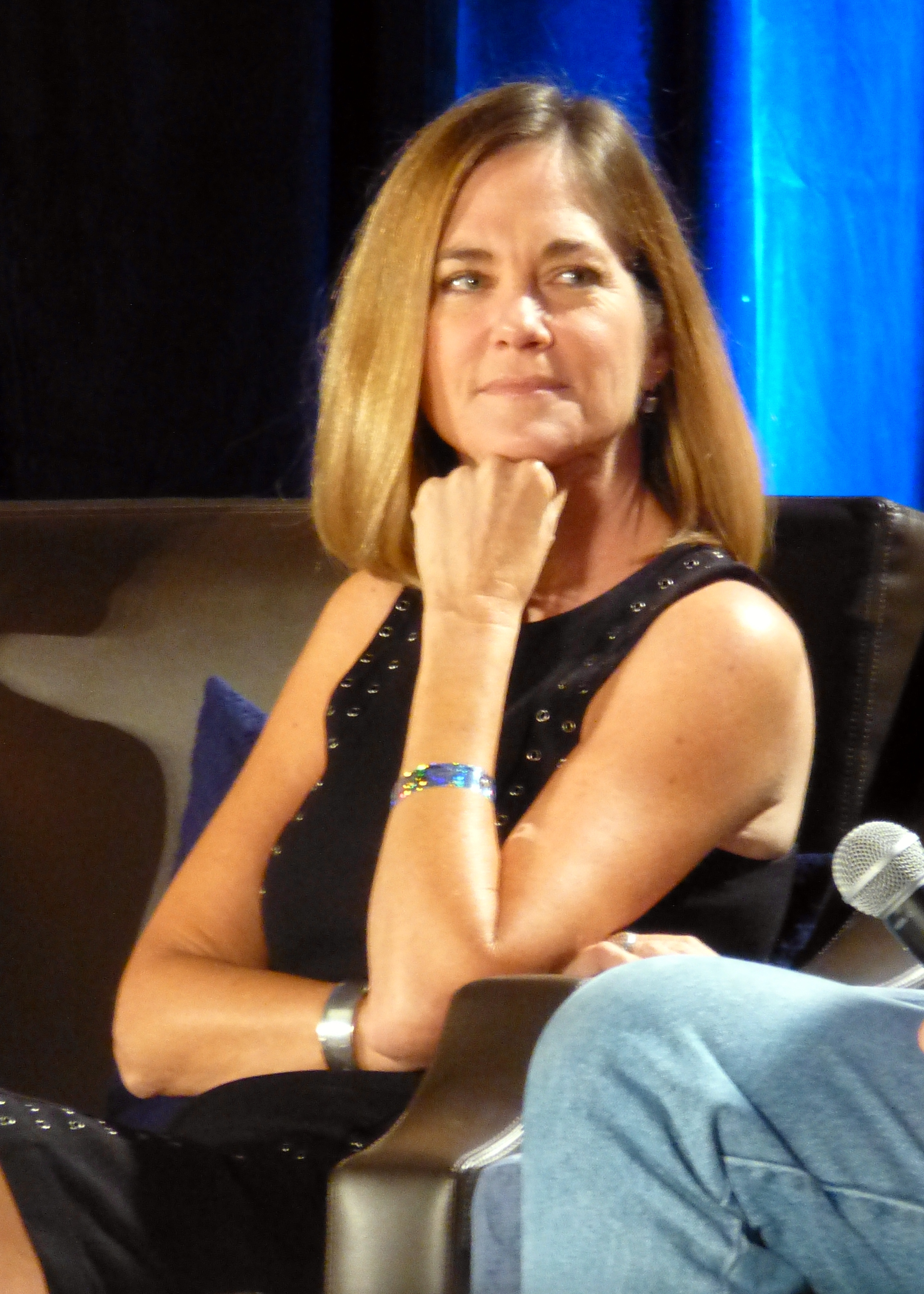 Kassie Wesley DePaiva went on to do Guiding Light, One Life to Live, and Days of our Lives Panel with cast and crew of both Evil Dead 1 and 2, hosted by Bruce Campbell Guests at the 2015 Wizard World Chicago.